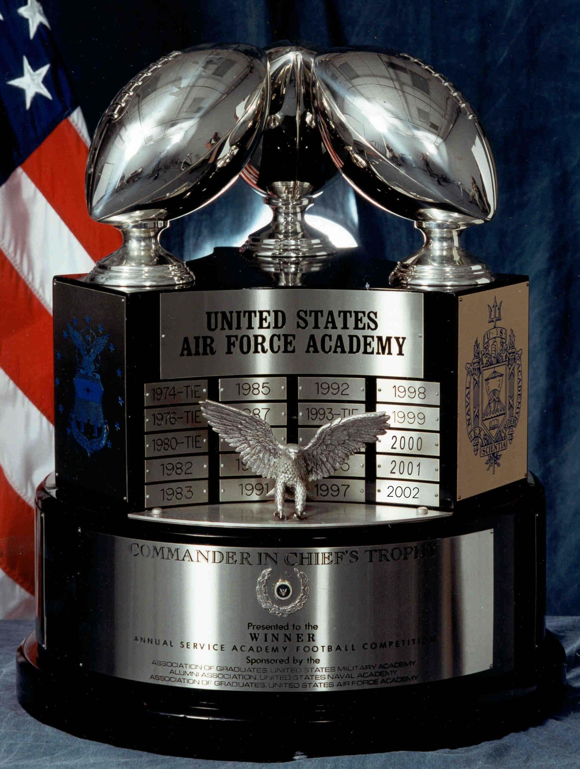 On December 6, 2003, the Navy regained possession of the Commander in Chief's trophy from the Air Force Academy by defeating the Air Force 28-25 in their inter-service game on October 4th, 2003 followed by a win against the Army 34-6 at the 104th Army-Navy game held on December 6, 2003. U.S. Air Force File photo.